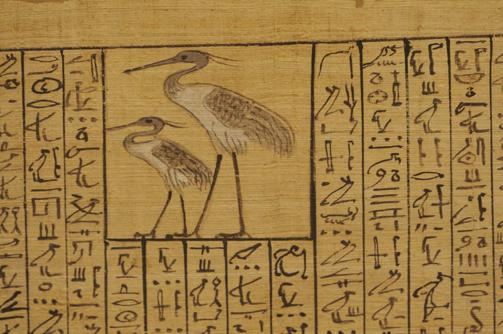 A hoard of photos from a day trip to London. We started in Greenwich at the Royal Observatory, and then spent most of the evening at the British Museum. These are uncleaned and unedited; all I've done is shrunk to make it faster to upload them. I'll post some of my faves to my "real" Flickr account as time and mood permits. A hoard of photos from a day trip to London. We started in Greenwich at the Royal Observatory, and then spent most of the evening at the British Museum. These are uncleaned and unedited; all I've done is shrunk to make it faster to upload them. I'll post some of my faves to my "real" Flickr account as time and mood permits.